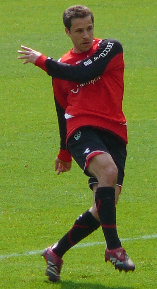 Steven Cherundolo